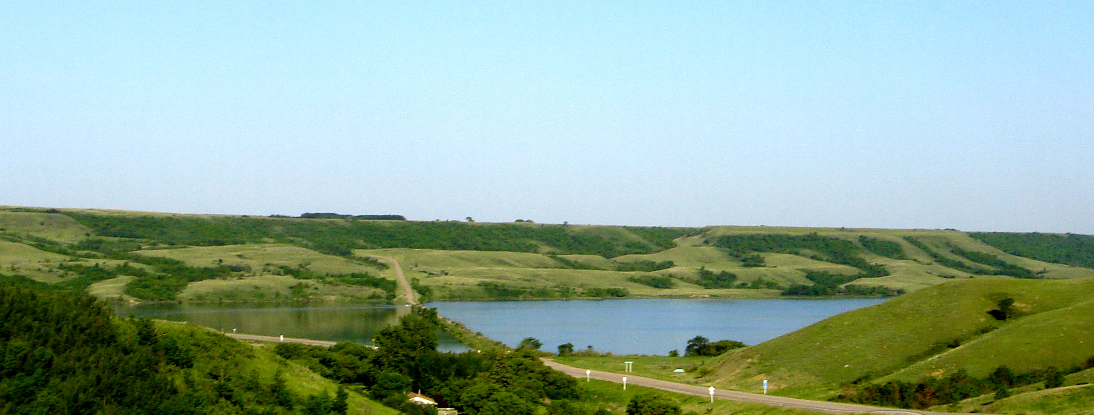 Buffalo Pound Lake' on the Qu'Appelle River Photo taken from Saskatchewan Highway 2 travelling north from Moose Jaw to Saskatchewan Highway 11